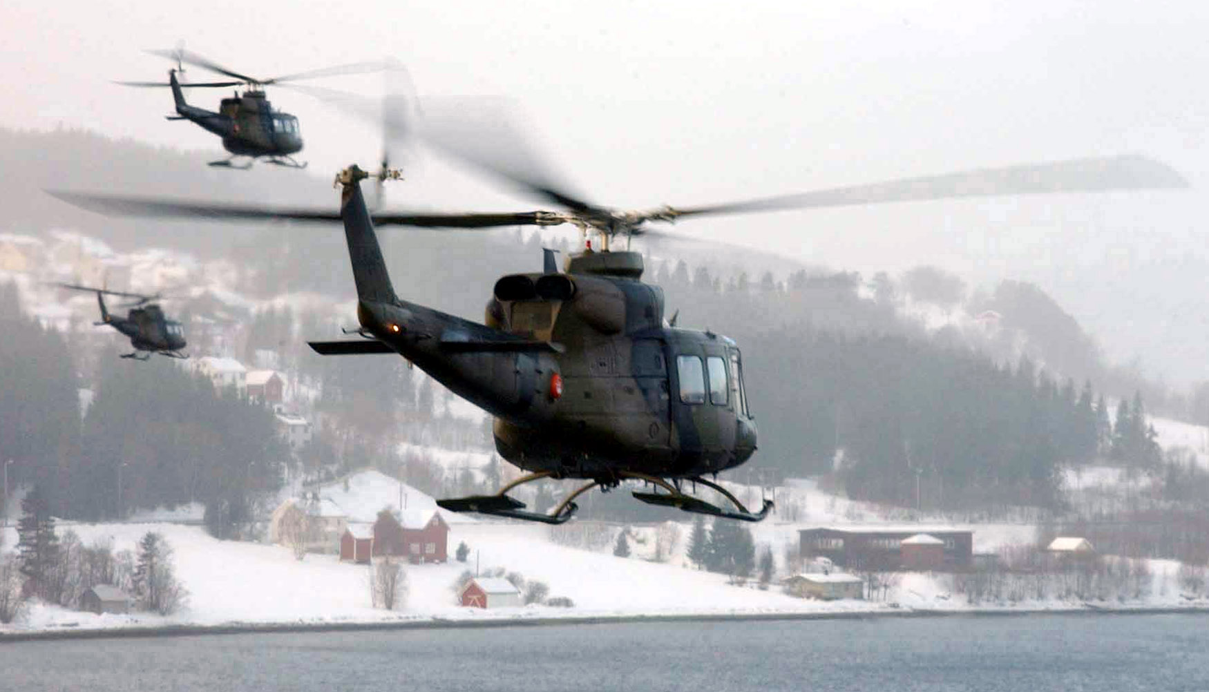 A group of Norwegian Bell 412SP military helicopters flying to the port of Orkanger to insert a team of U.S. Marines from 1st Battalion, 8th Marine Regiment. The Marines were participating in Battle Griffin, the second phase of NATO exercise Strong Resolve 2002.